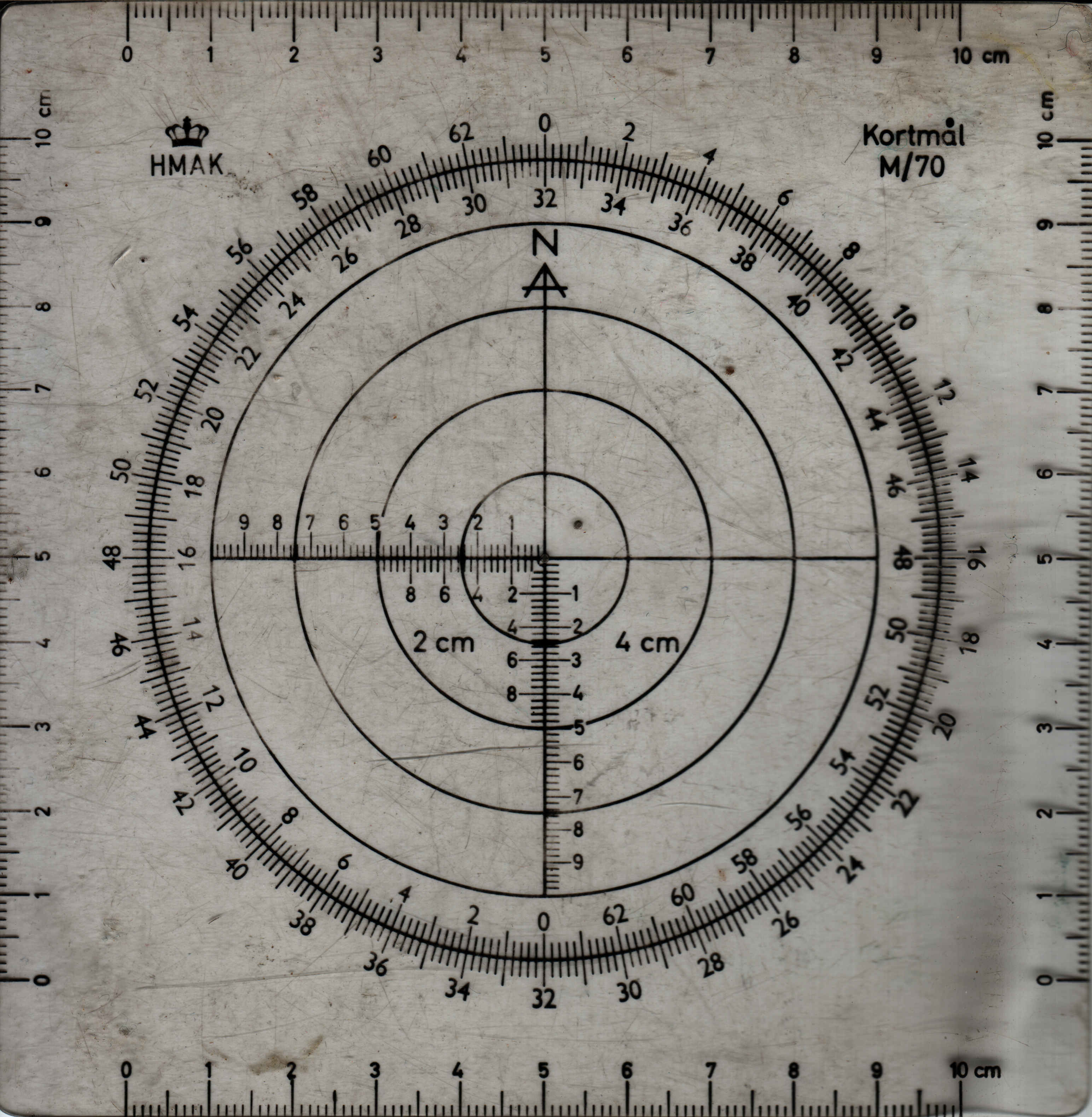 Map measure M/70 from Denmark (HMAK), Kortmål M/70. The black string fastened at the hole in the center is missing. Each of the four sides has a 10 cm ruler with 1 mm markings. The two perpendicular linear scales marked '2 cm' has numbered markings corresponding to hektometer on a '2 cm'-map (i.e. a map where 2 cm corresponds to 1 km, a scale of 1:50000). Similarly, the other two perpendicular linear scales marked '4 cm' has numbered markings corresponding to hektometer on a '4 cm'-map (i.e. a map where 4 cm corresponds to 1 km, a scale of 1:25000). The circular scale is divided into 6400 angular mils. With the string in place the direction from one point on a map (of any scale) to another can be measured by centering the map measure on top of the first point with the arrow marked N pointing towards North and pulling the string over the second point, after which the direction in mils can be read off the outer circular scale. The inverse direction can be read off the inner scale.